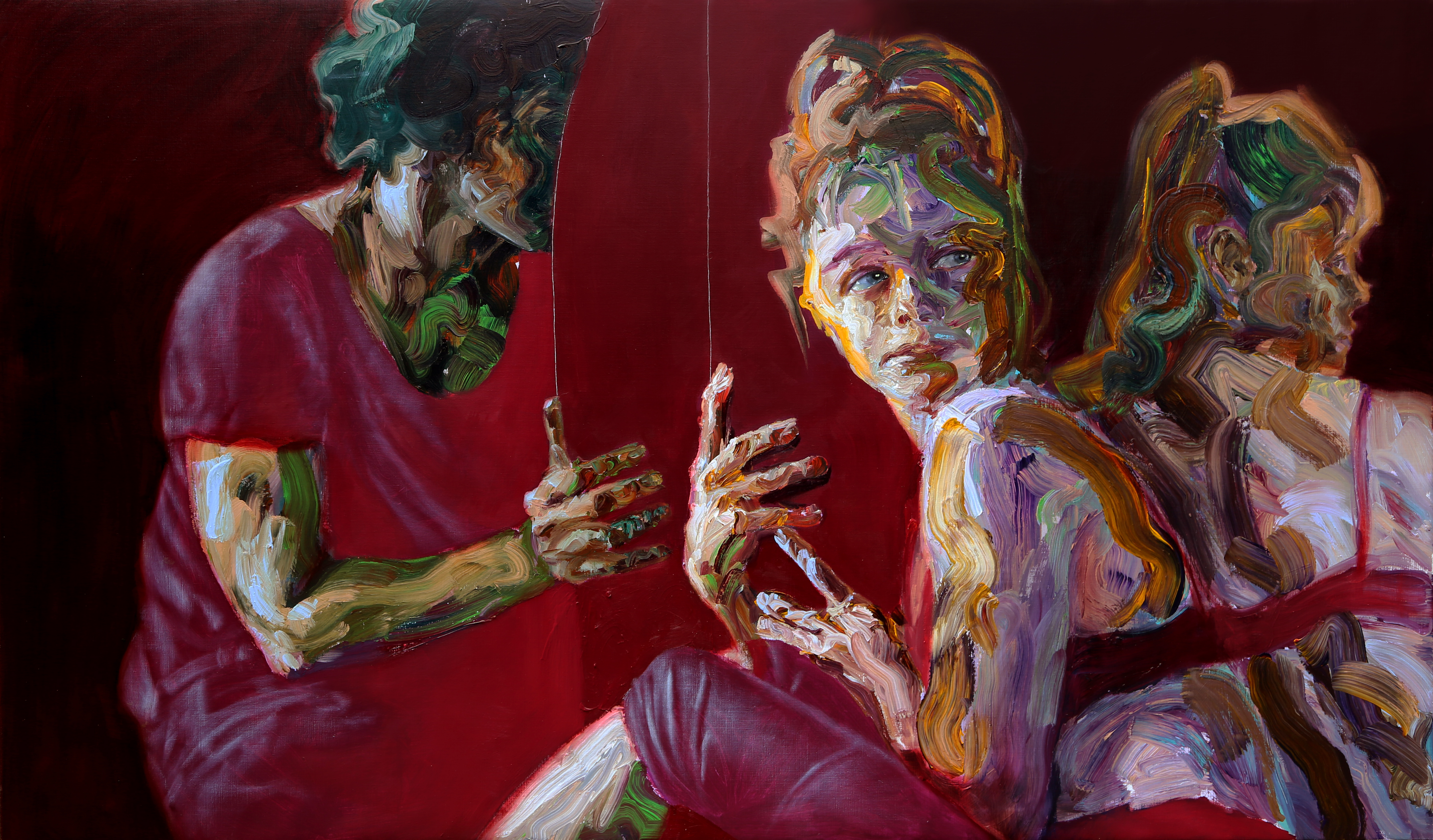 A photograph of an oil and acrylic painting on canvas created by artist, Sara Shamma in 2019. The original painting is 255x150cm in size.